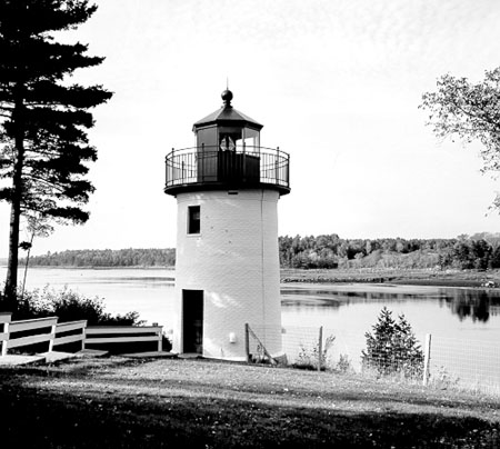 undated United States Coast Guard photograph of Whitlocks Mill Light (original here)